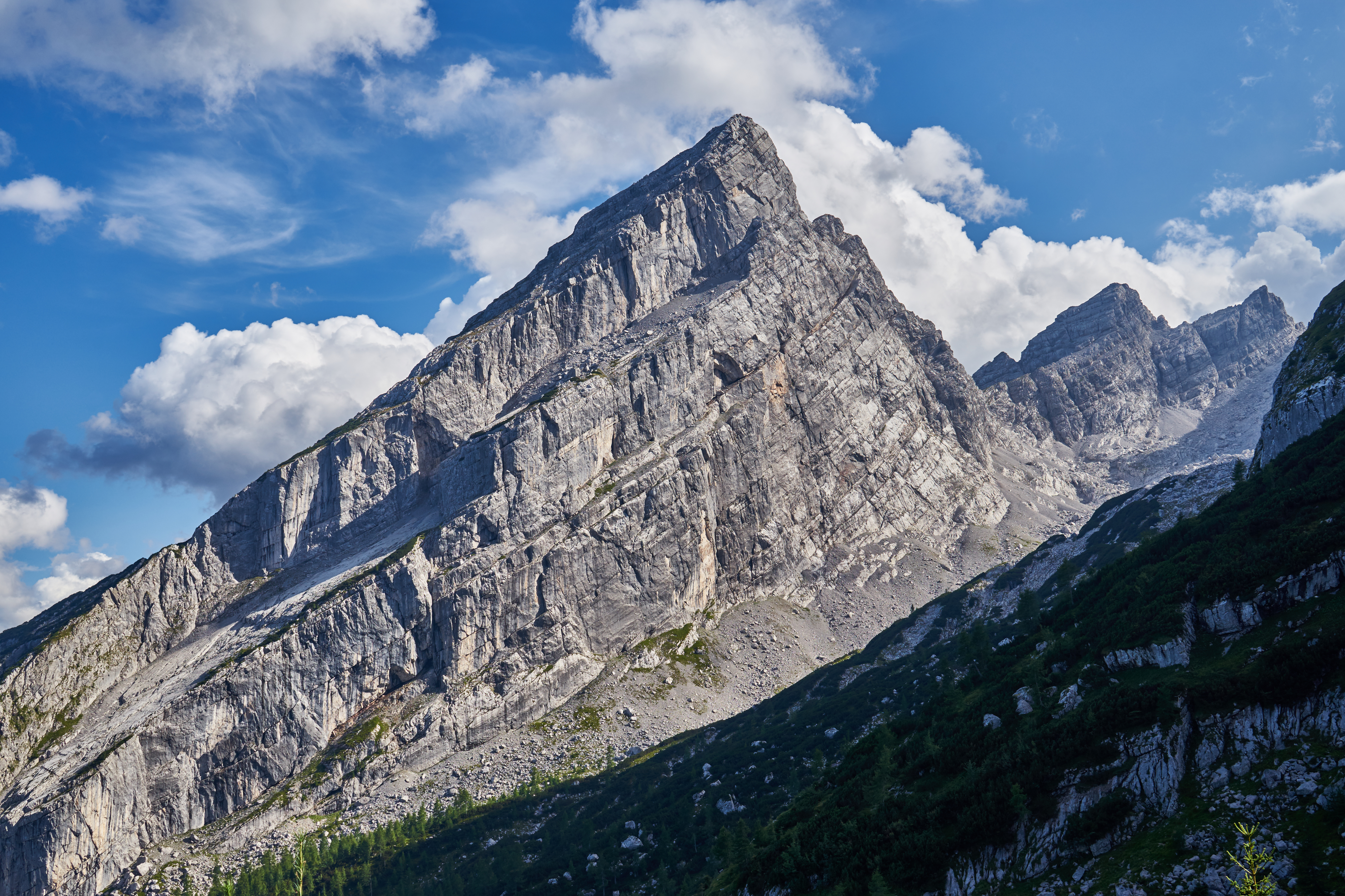 Kleiner Watzmann (2307 m), Berchtesgaden Alps, Germany.